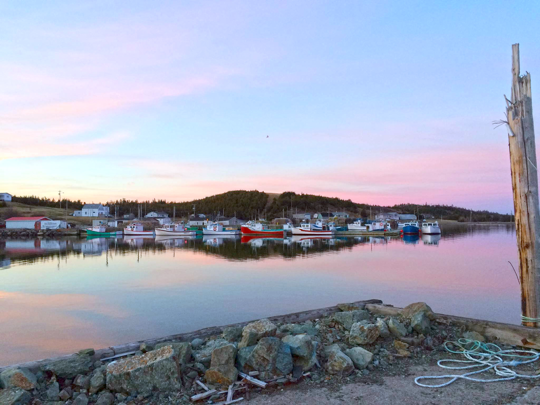 Main-à-Dieu Harbour May 2016